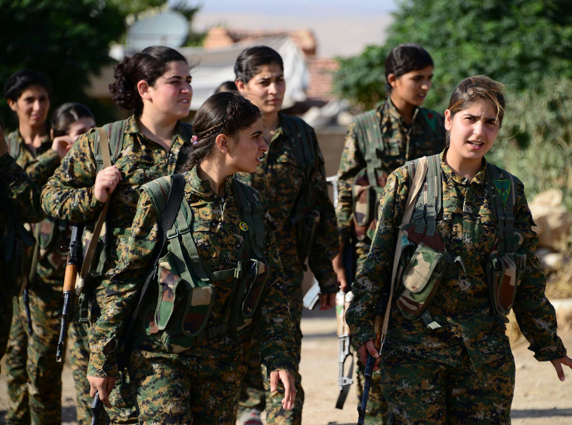 YPJ fighters